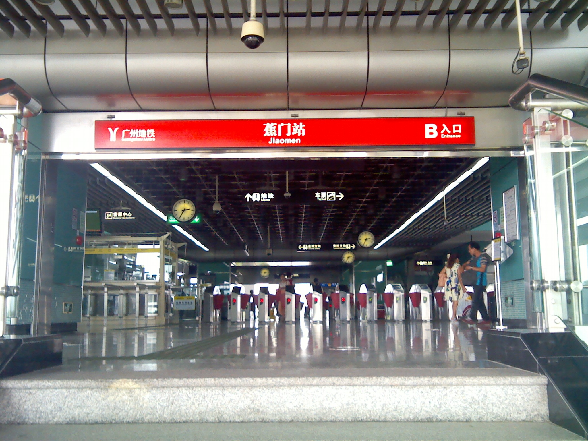 蕉门站B出入口